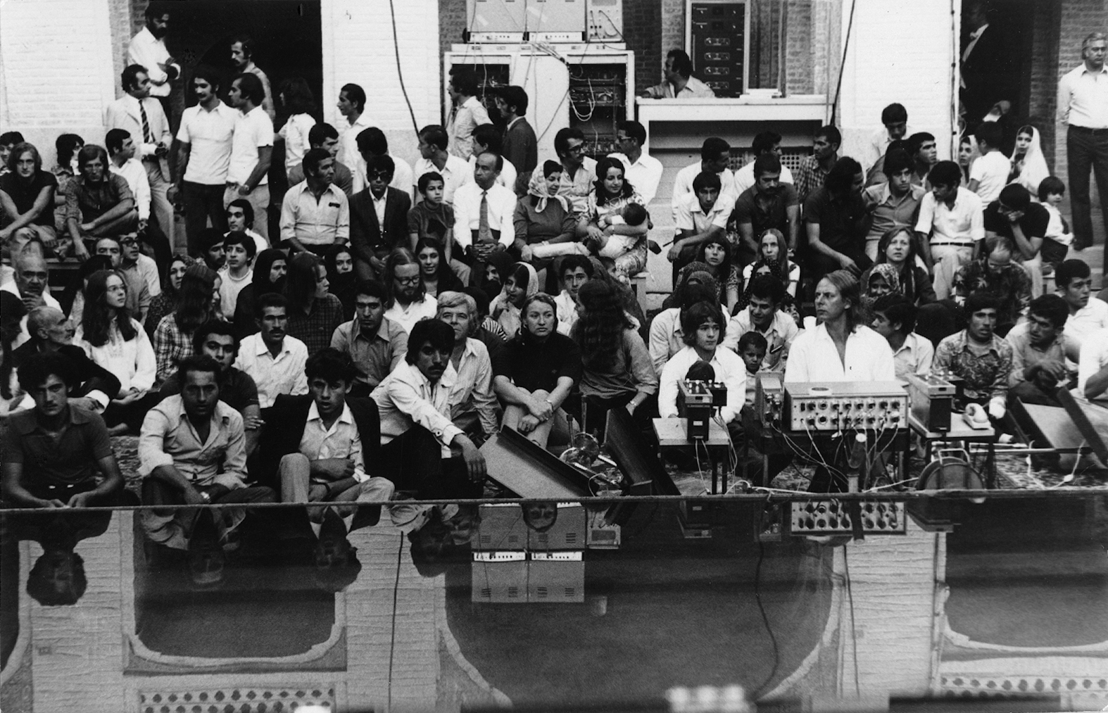 Shiraz Arts Festival, Karlheinz Stockhausen. Seraye Moshir, Shiraz, 2. Sept. 1972.